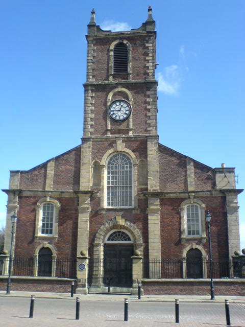 Taken 2007-04-17 with SonyEricsson w810i 2.0 MPx Walkman-CameraPhone